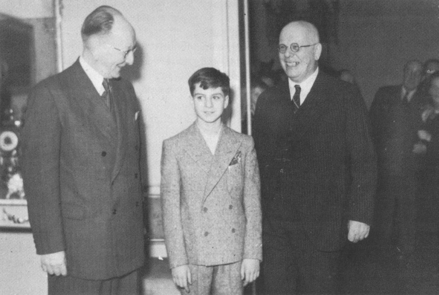 Photograph of the 12-year-old conductor Pierino Gamba on his visit to Finland in 1949. To the left, Toivo Haapanen; to the right, Leo Funtek.